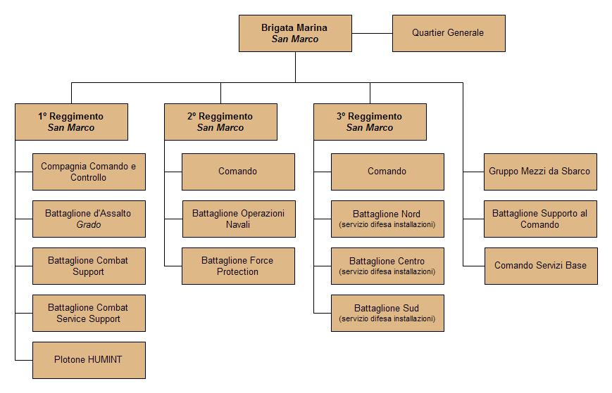 Organization of the Italian Navy "San Marco" Marine Brigade (Italian)